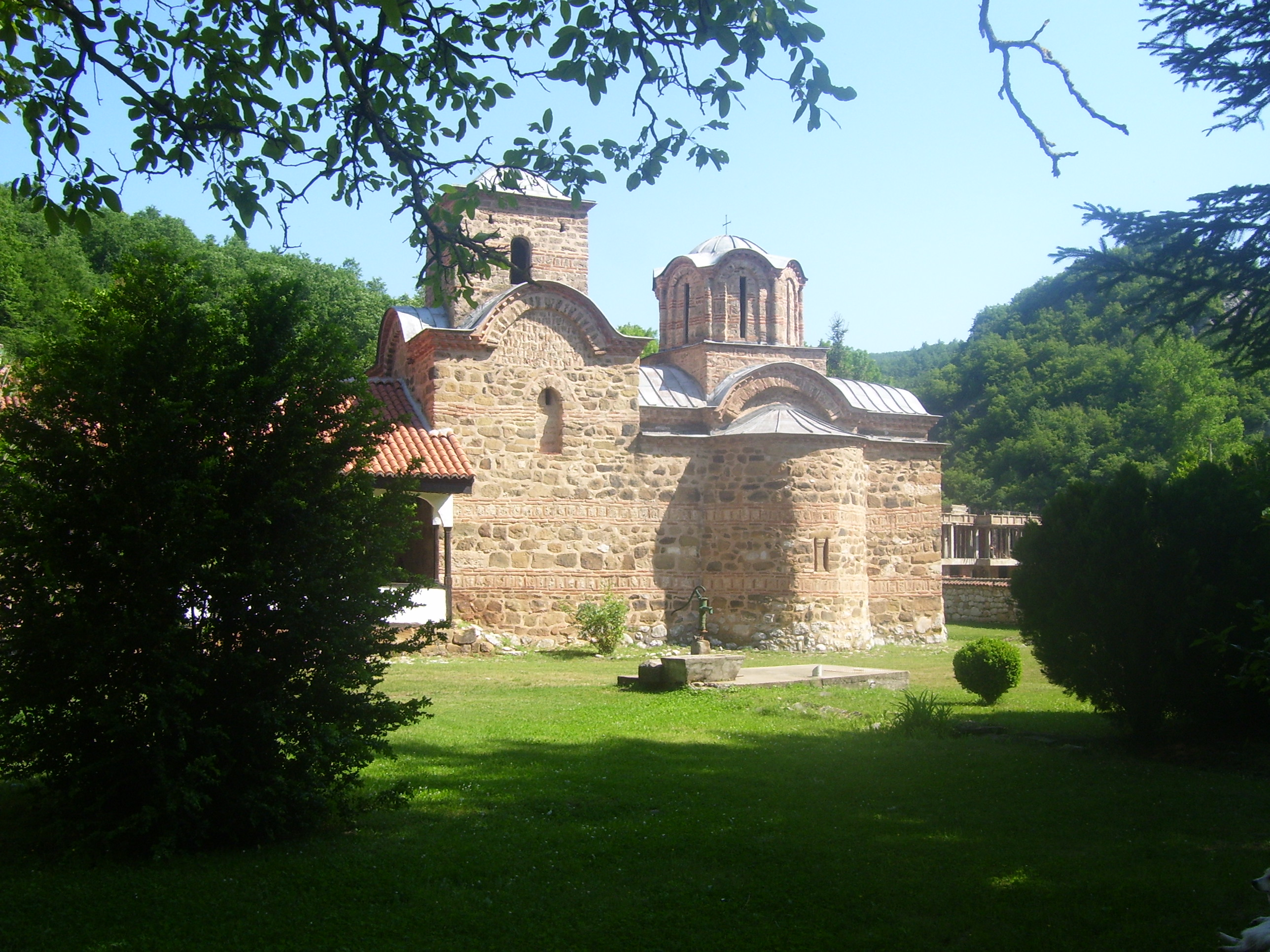 Church in Poganovo monastery.